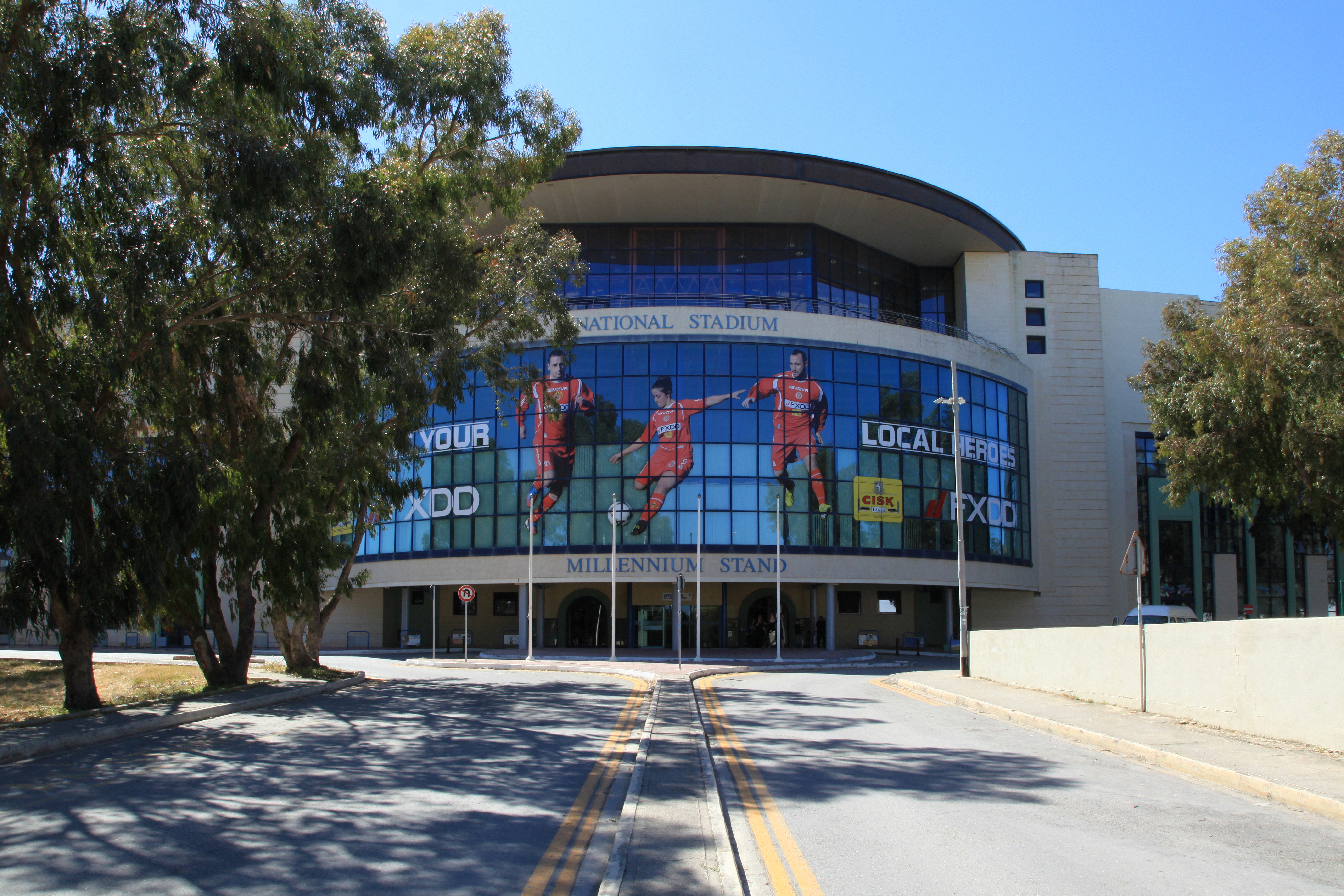 Ta' Qali National Stadium in Attard, Malta